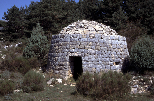 Dry stone hut located at Saint-Vallier-de-Thiey in the Alpes-Maritimes département, France. Photo by Christian Lassure.